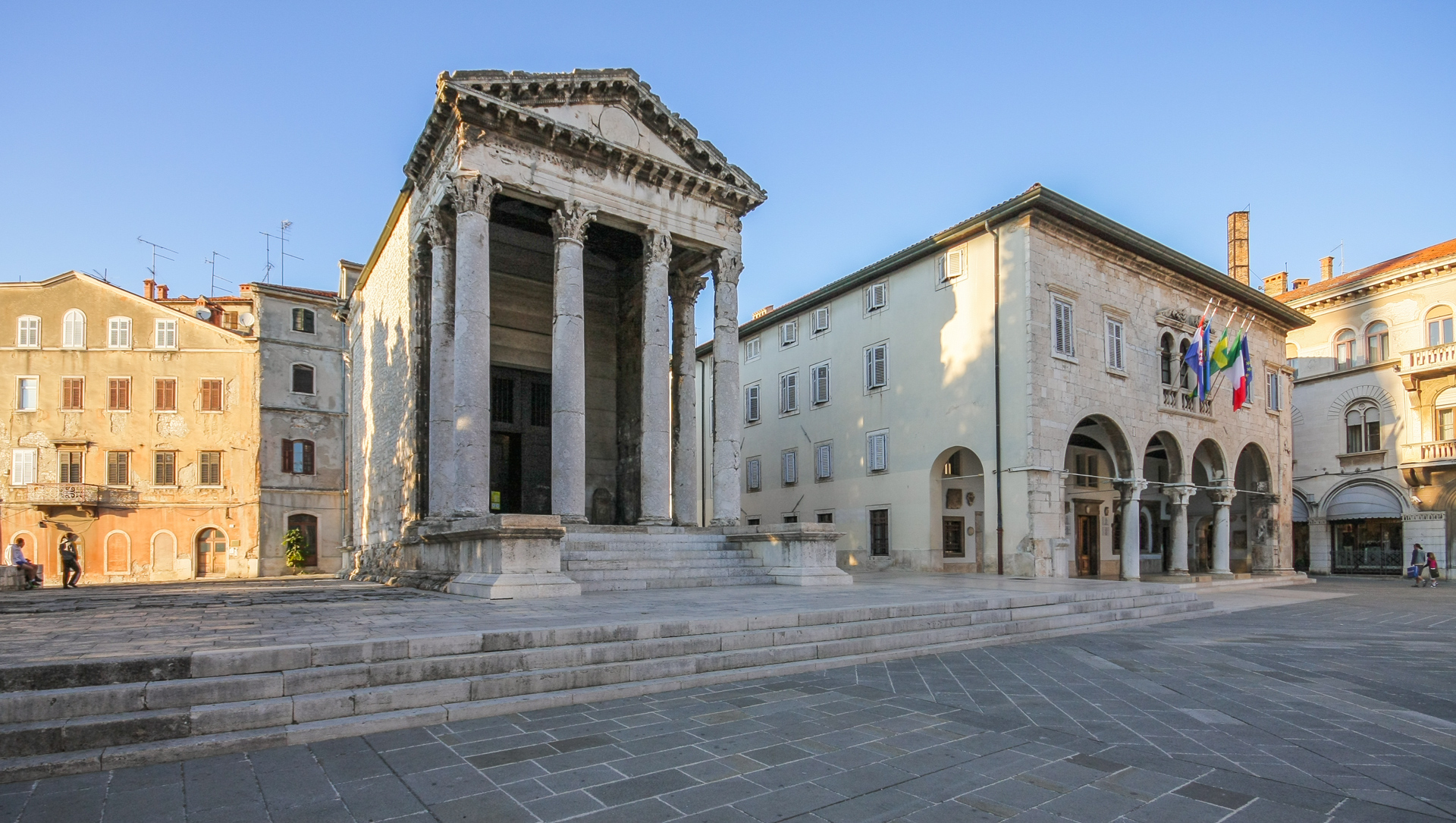 The Temple of Augustus and the Communal Palace in Pula, Croatia